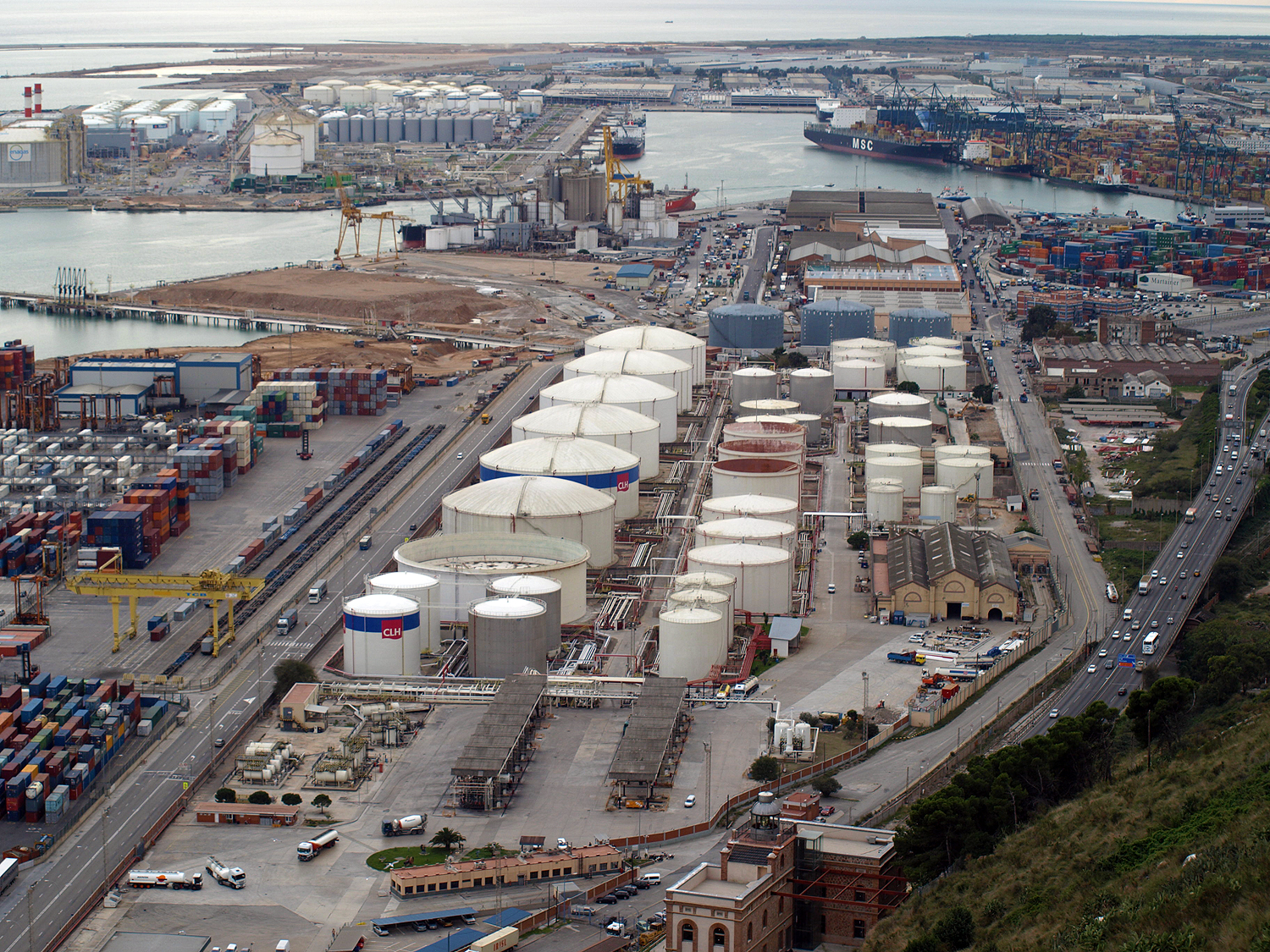 Barcelona Port Area view from atop Montjuic